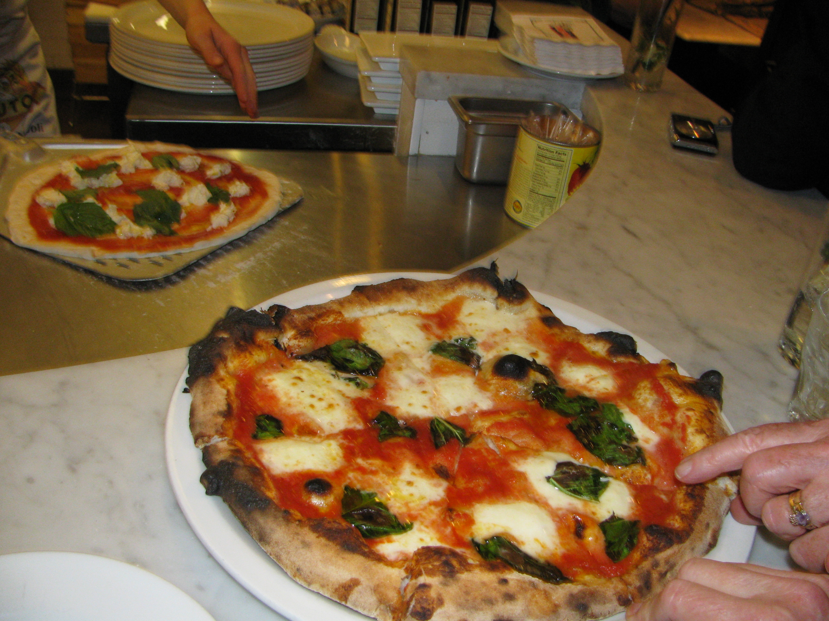 Tony's special Neapolitan pizza ready to eat; image made in San Francisco, CA